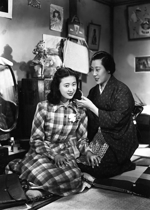 Keiko Kishi and Isuzu Yamada in Waga ya wa tanoshi (1951) directed by Noboru Nakamura